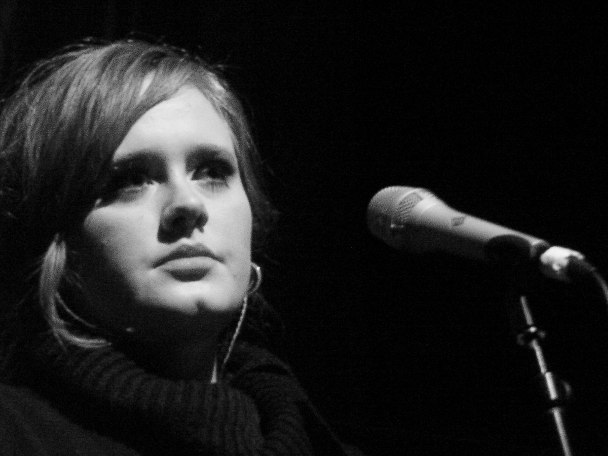 Adele on a concert in January 2009.